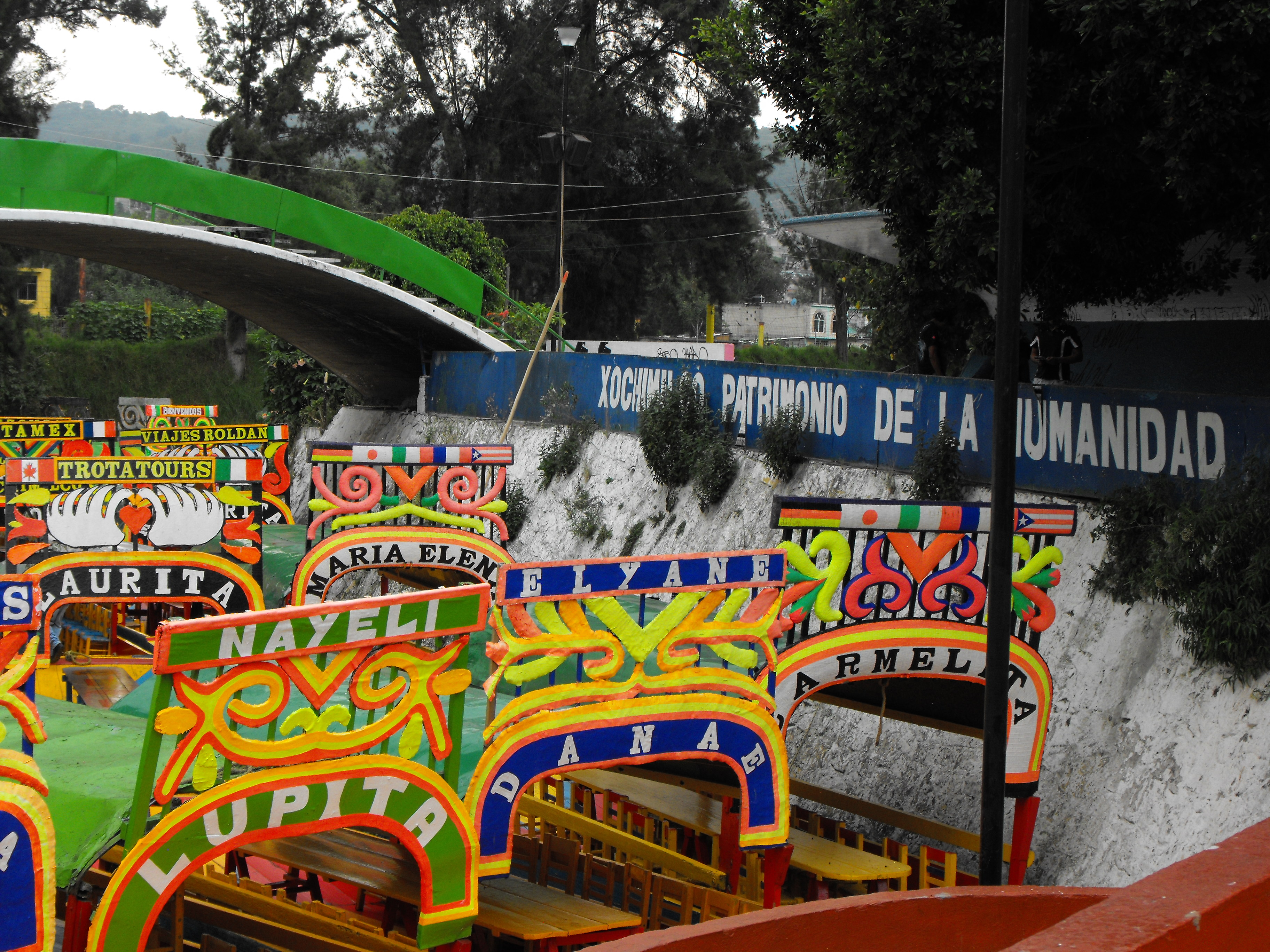 Embarcadero de Nativitas: lugar donde se encuentran estacionadas todas las trajineras para que los visitantes escogan en cual subirse para inicia el recorrido turístico por los canales de Xochimilco.